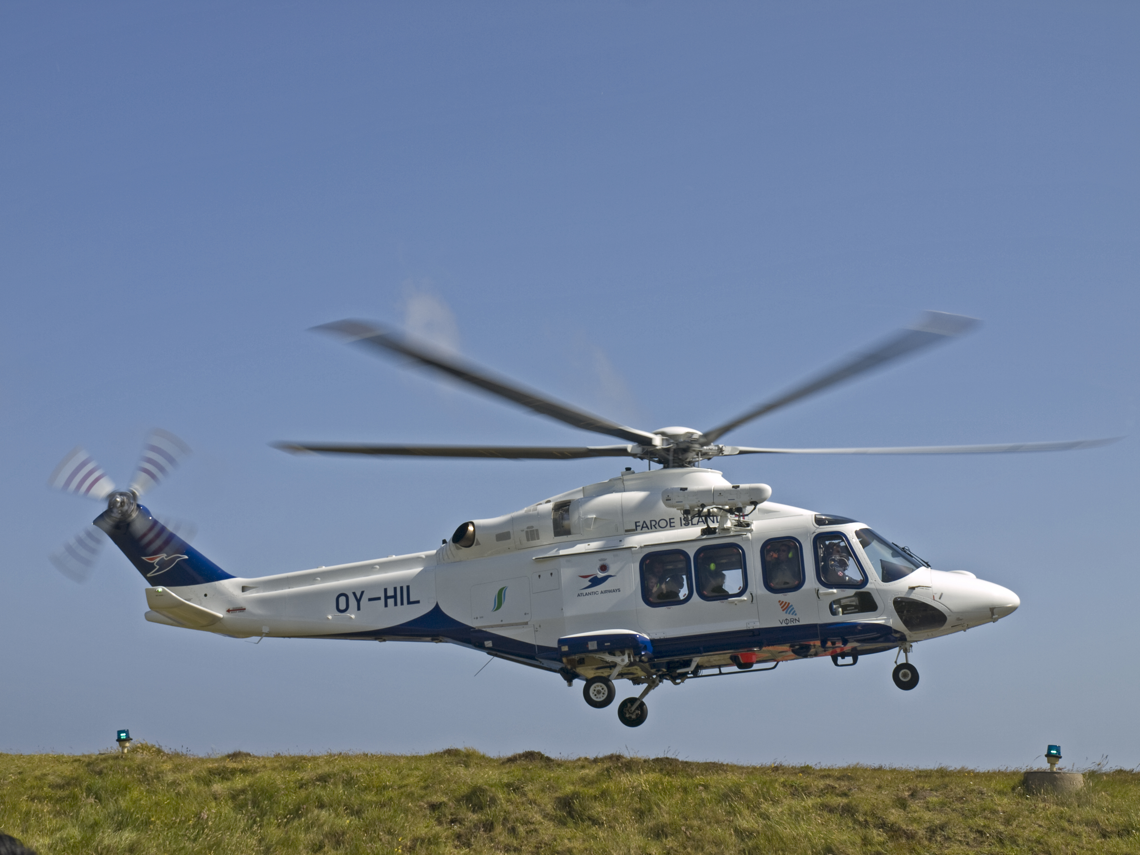 AgustaWestland AW139 OY-HIL landing at Torshavn Helipad on its way to Klaksvik, Svinoy, and Kirkja